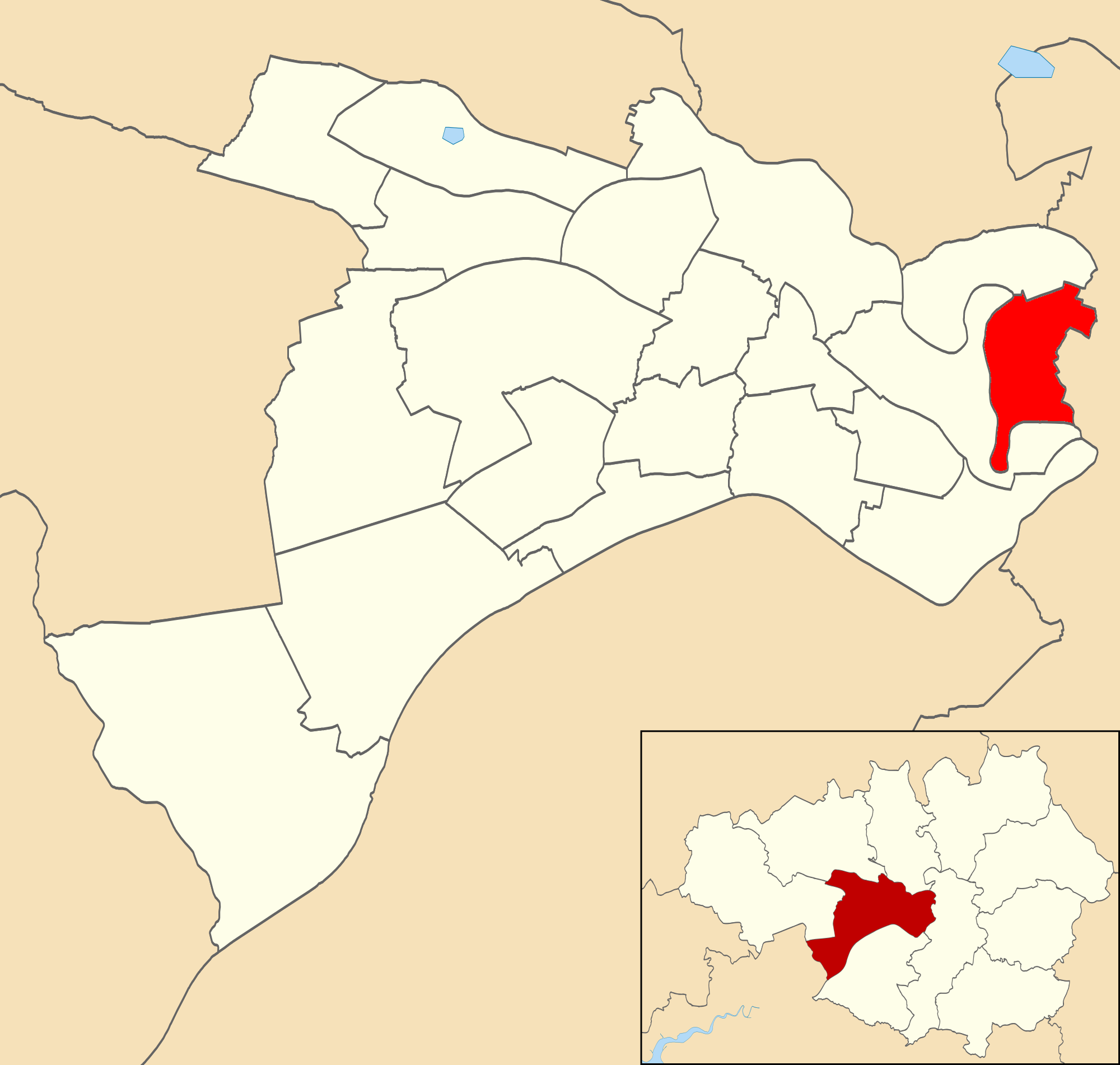 Map showing location of Broughton ward within Salford City Council.